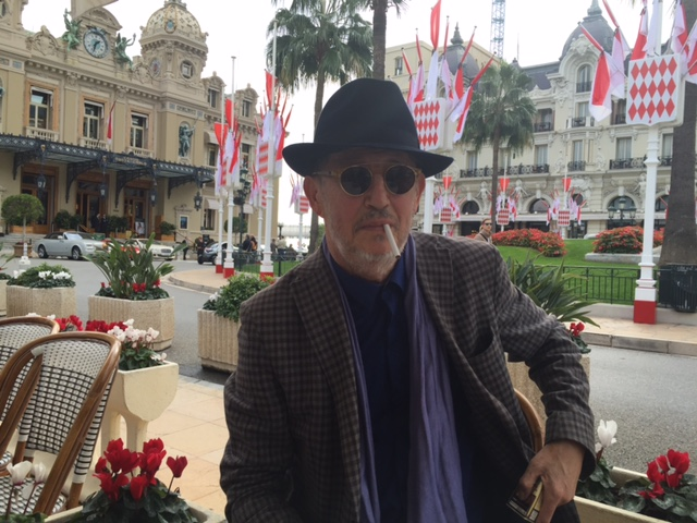 Nebojsa Pajkic at Monaco